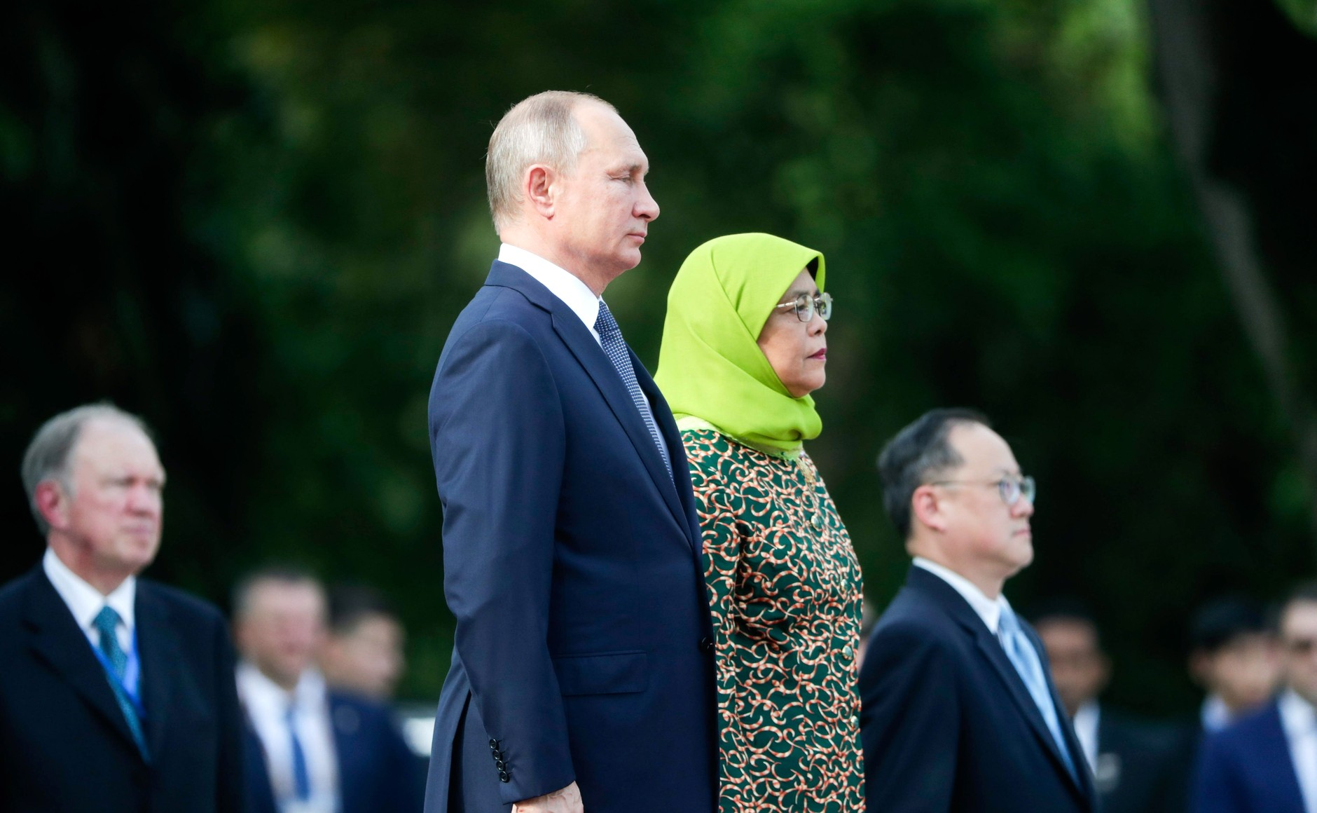 Vladimir Putin had a meeting with President of Singapore Halimah Yacob.